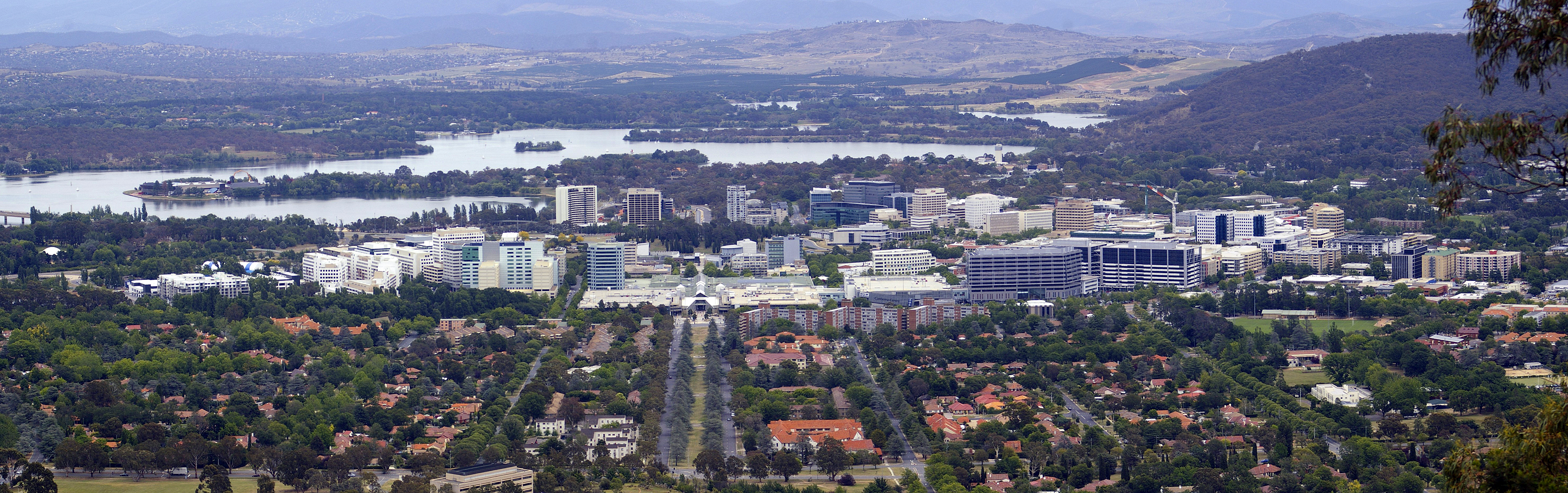 City Centre, with Lake Burley Griffin and Mount Stromlo in the background, viewed from Mount Ainslie lookout.